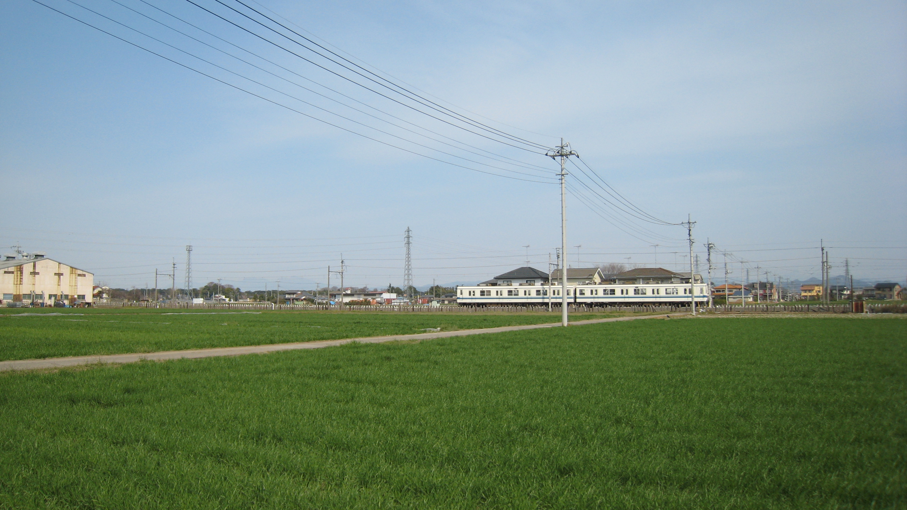 Koizumi Line near the Kousei Byouin in Tatebayashi, Gunma Prefecture,Japan. taken at 30,March,2008 by Taketarou